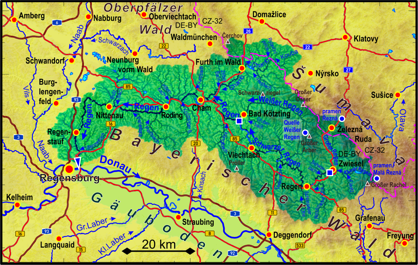 Catchment area of the river Regen